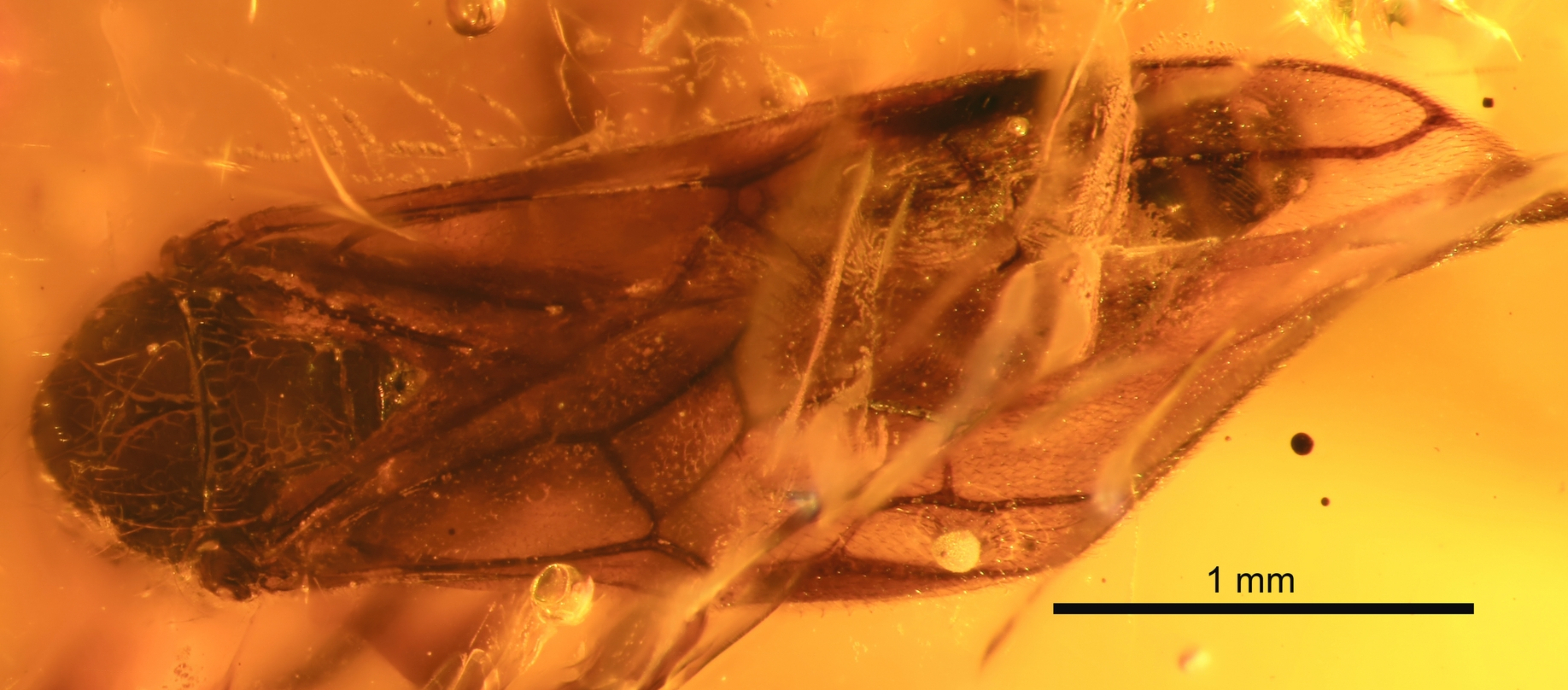 Dorsal view of the Protomyrmica atavia holotype male. Middle Eocene; Baltic amber, Samland Peninsula, Kalingrad, Russia Natural History Museum, London, United Kingdom. Specimen BMNHP65422